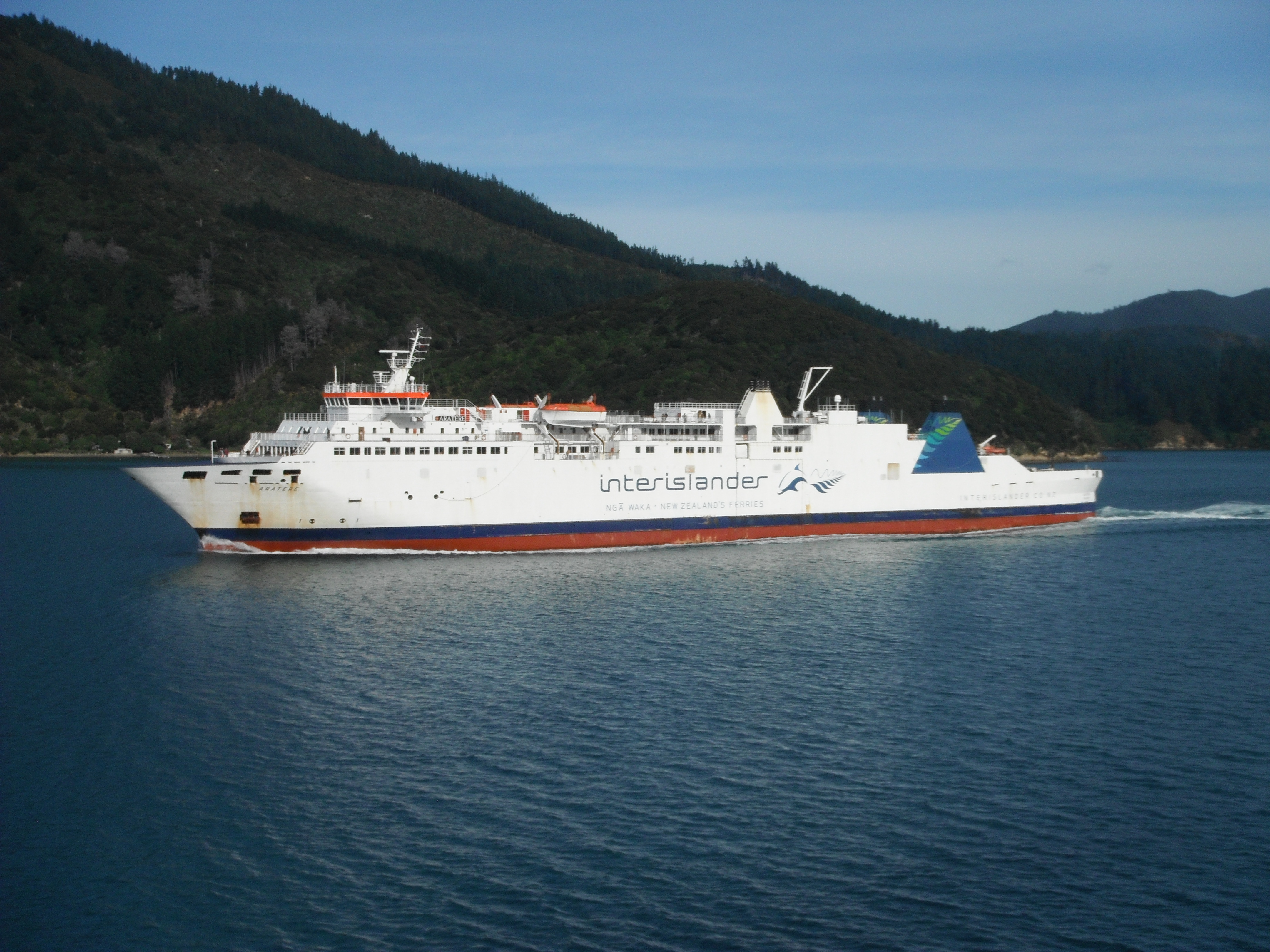 Interislander ferry DEV Aratere passing Papatea Point in the Tory Channel on 10 June 2017. Aratere was operating the 10:45 Picton to Wellington service, with the photo taken from aboard fellow Interislander ferry MV Kaitaki operating the 09:00 Wellington to Picton service.